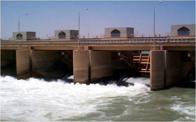 The Fallujah Barrage in Iraq.